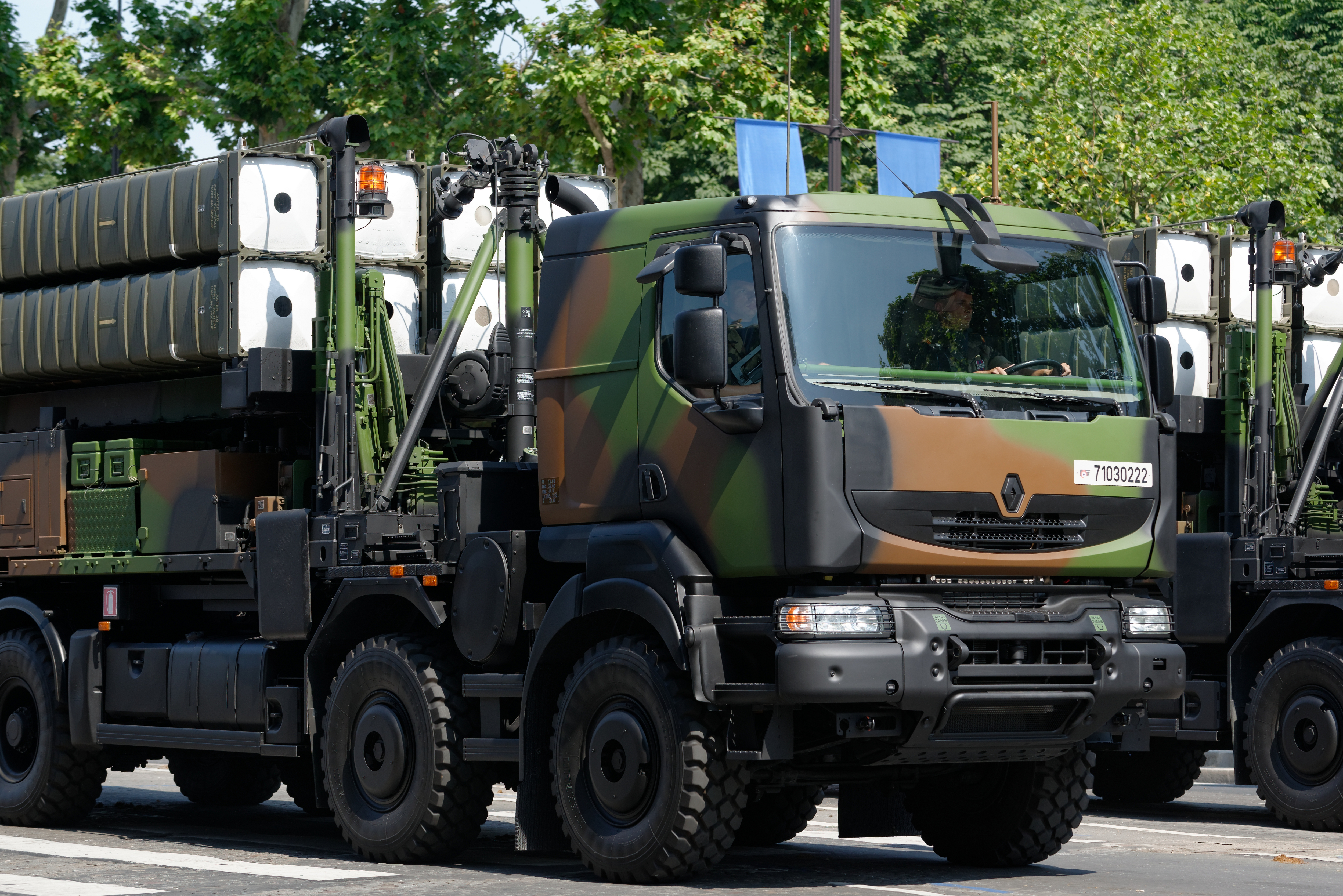 SAMP/T Mamba (Aster 30) mounted on a transporter erector launcher vehicle of the Air Defence Squadron 12.950 “Tursan” at the Bastille Day 2013 military parade on the Champs-Élysées in Paris.